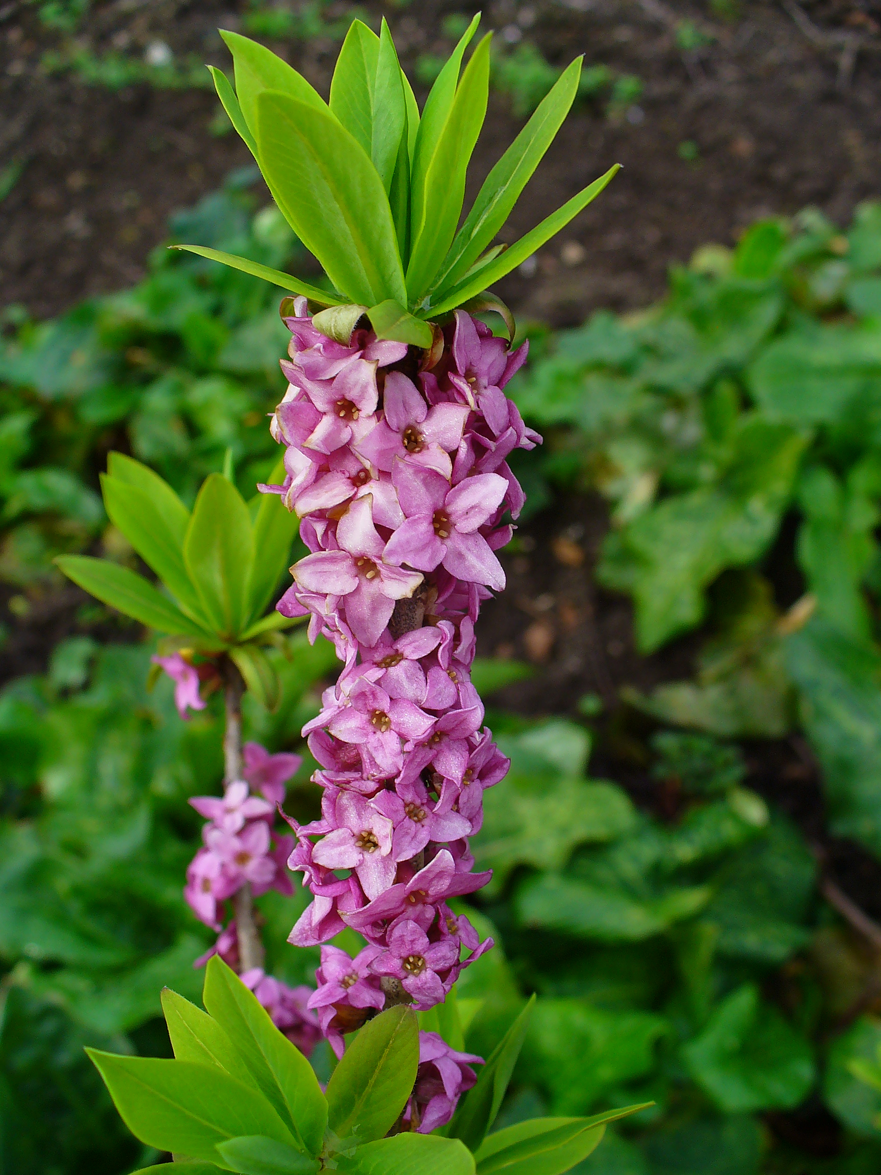 Daphne mezereum, Thymelaeaceae, Mezereon, flowers. The bark is used in homeopathy as remedy: Mezereum (Mez.)